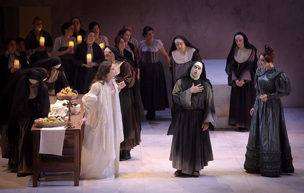 LE COMTE ORY - De Gioacchino ROSSINI - Production Opéra Comique 2017 Photo: Vincent Pontet ( Direction musicale : Louis LANGREE - Chef de choeur : Joel SUHUBIETTE - Mise en scene : Denis PODALYDES - Scenographie : Eric RUF - Costumes : Chritiant LACROIX - Lumieres : Stephanie DANIEL - Avec : Philippe TALBOT (Le Comte Ory) - Julie FUCHS (La Comtesse) - Eve Maud HUBEAUX (Dame Ragonde) - Le 17 12 2017 - A l Opera Comique - Photo : Vincent PONTET